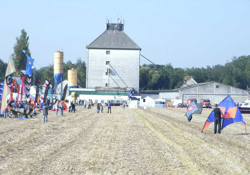 Drachenfest September 2008, Titz-Ameln